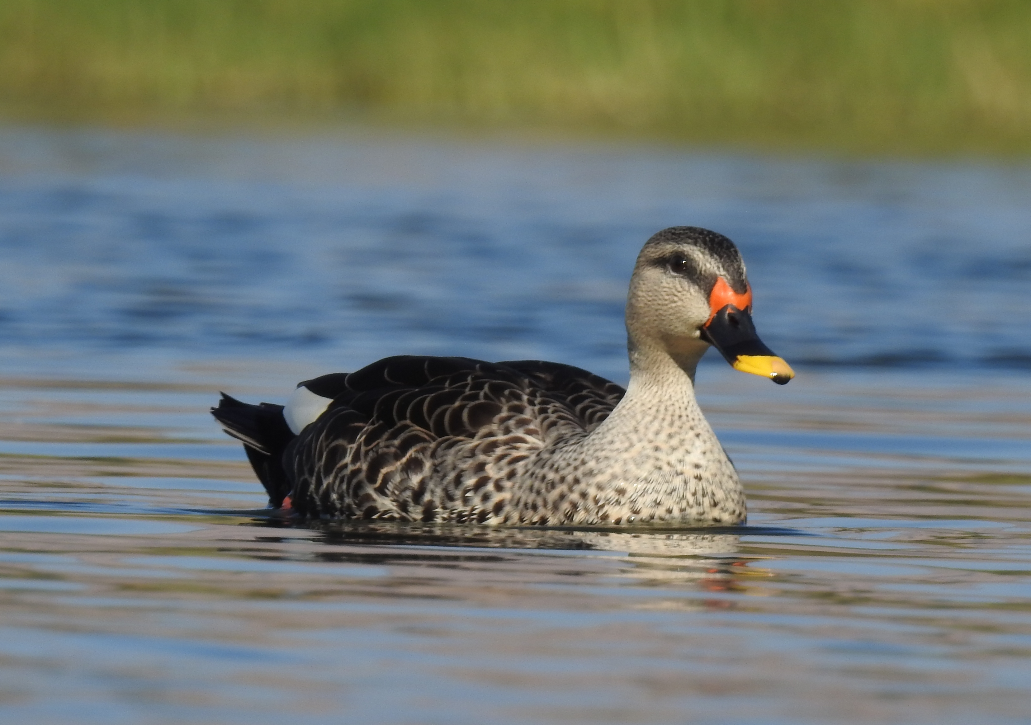 Indian Spot-billed Duck Anas poecilorhyncha. Photo taken in Jaipur, Rajasthan by Dr. Raju Kasambe